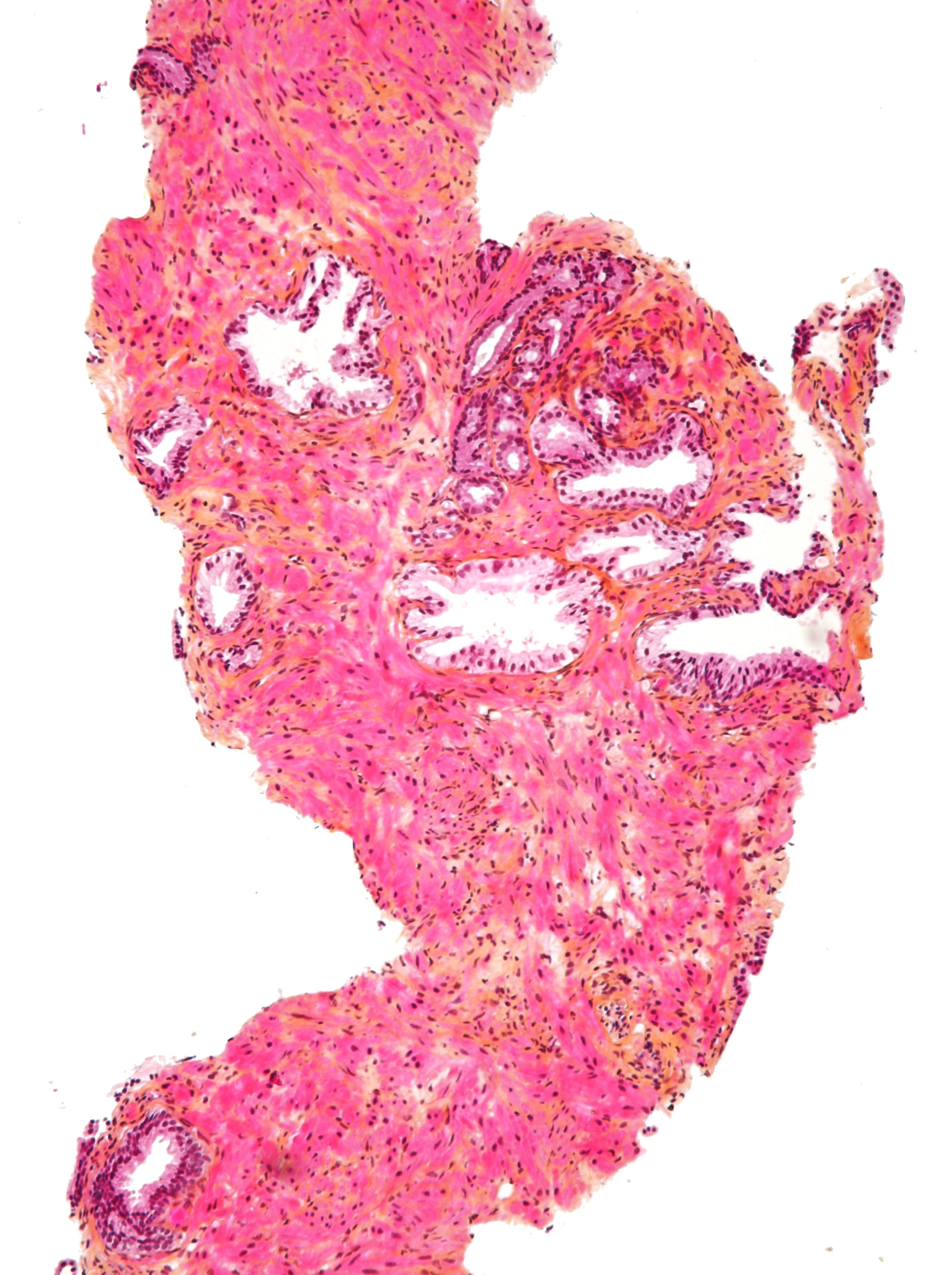 Intermediate magnification micrograph of prostate adenocarcinoma. Needle core biopsy. HPS stain. See also Image:Prostate adenocarcinoma 2 high mag hps.jpg - same case, high magnification. Image:Prostate adenocarcinoma intermed mag hps.jpg - same case, different core. Image:Perineural invasion prostate high mag.jpg - same case, view demonstrating perineural invasion.